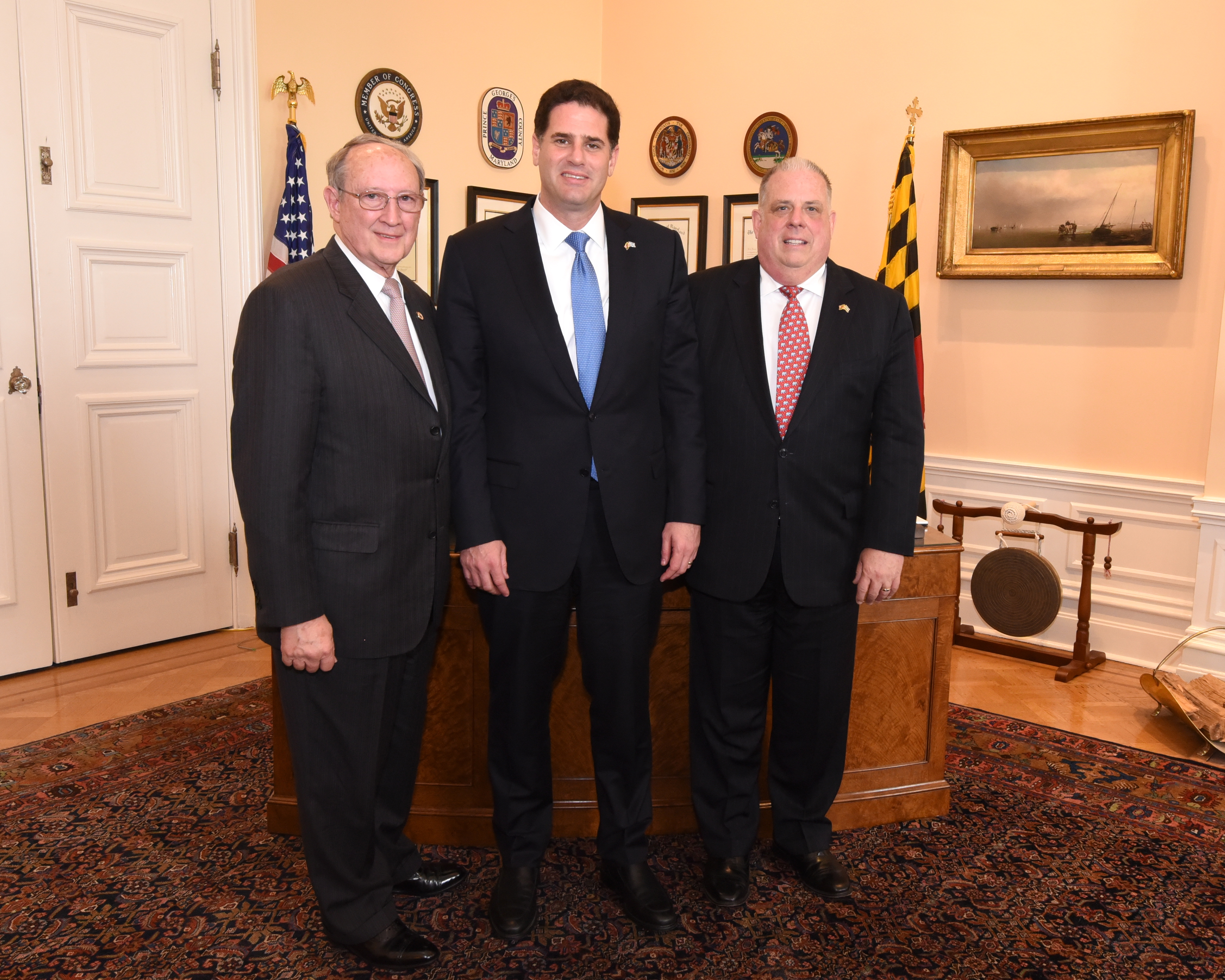 Governor receives Israeli Ambassador by Joe Andrucyk at Governor's Office, 100 State Circle, Annaplois, Maryland, 21401